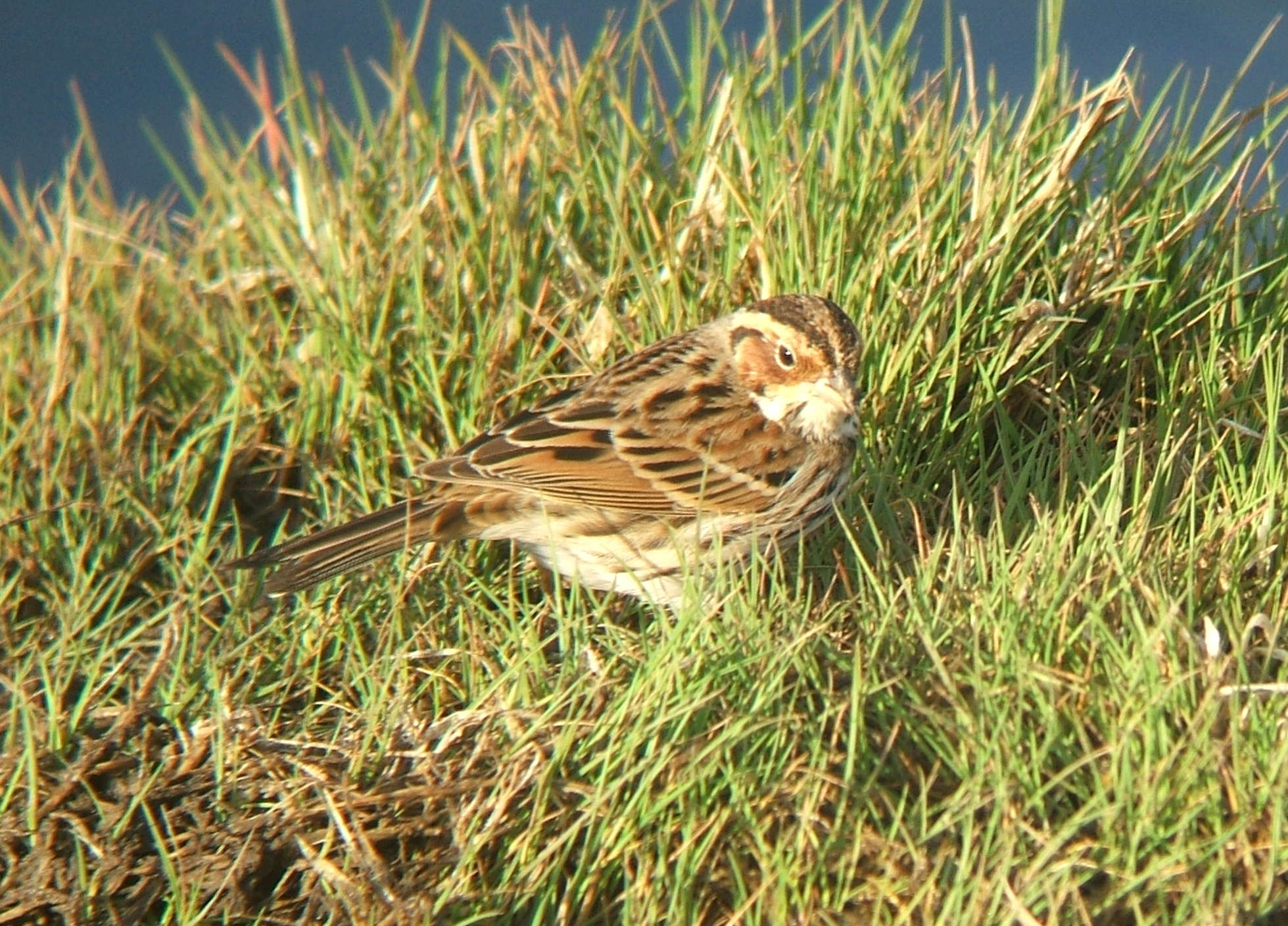 Little Bunting Emberiza pusilla, Harrington Burn, Shiney Row, Durham, UK